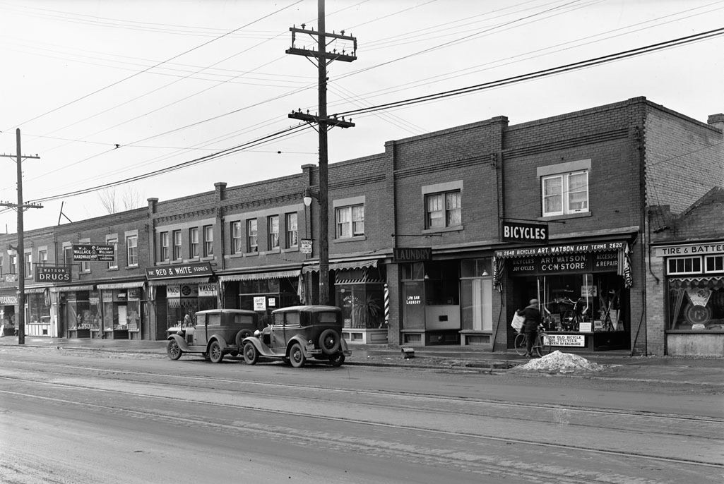 The west side Yonge Street, south of Craighurst Avenue, in 1935. Toronto, Ontario, Canada.